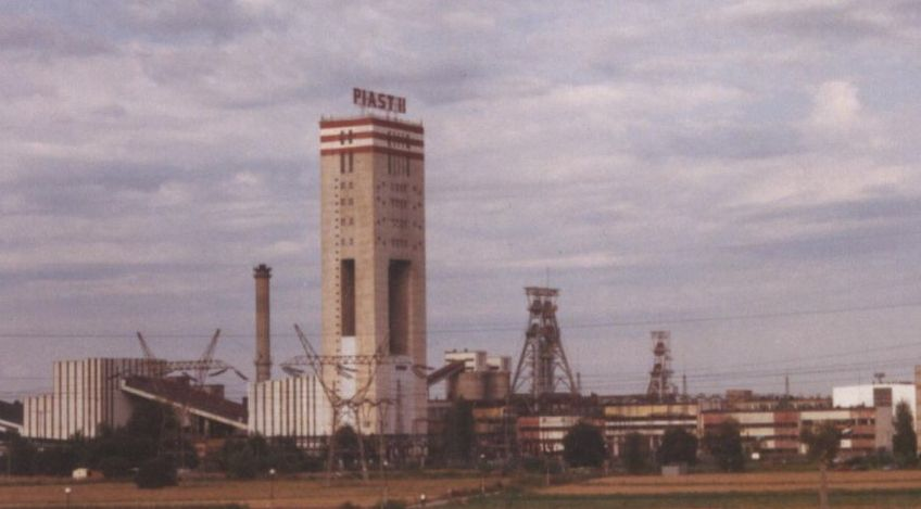 KWK Czeczott after rename to KWK Piast II